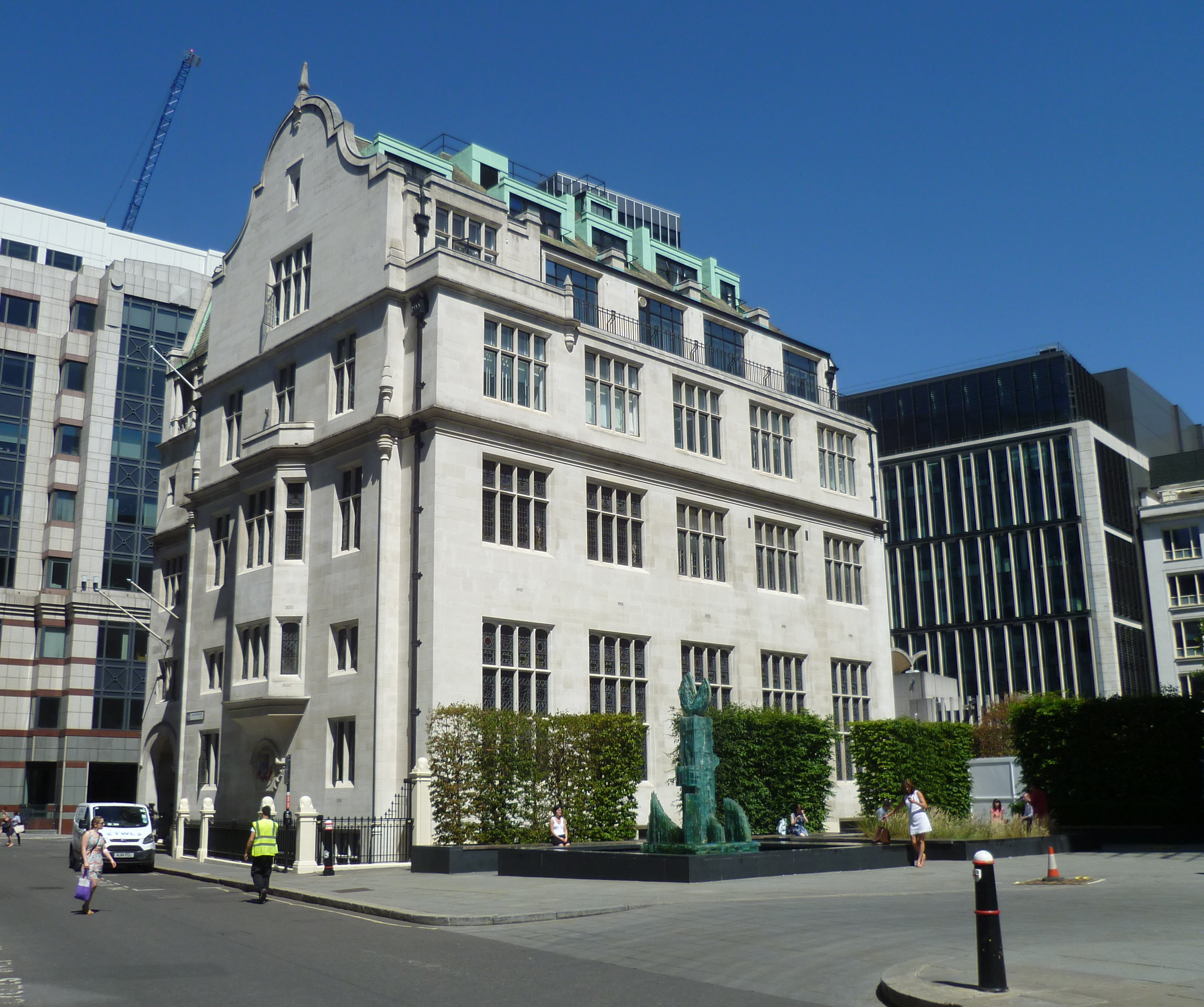 Chartered Insurance Institute, Aldermanbury, London. The smaller area than the building which is a garden in front of the building has three hedges and is known as Three Nun Court.